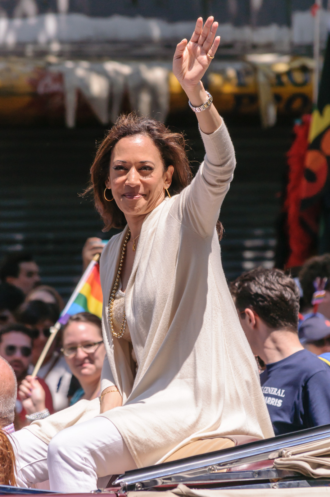 Attorney General Kamala Harris a the San Francisco Pride, 2013.